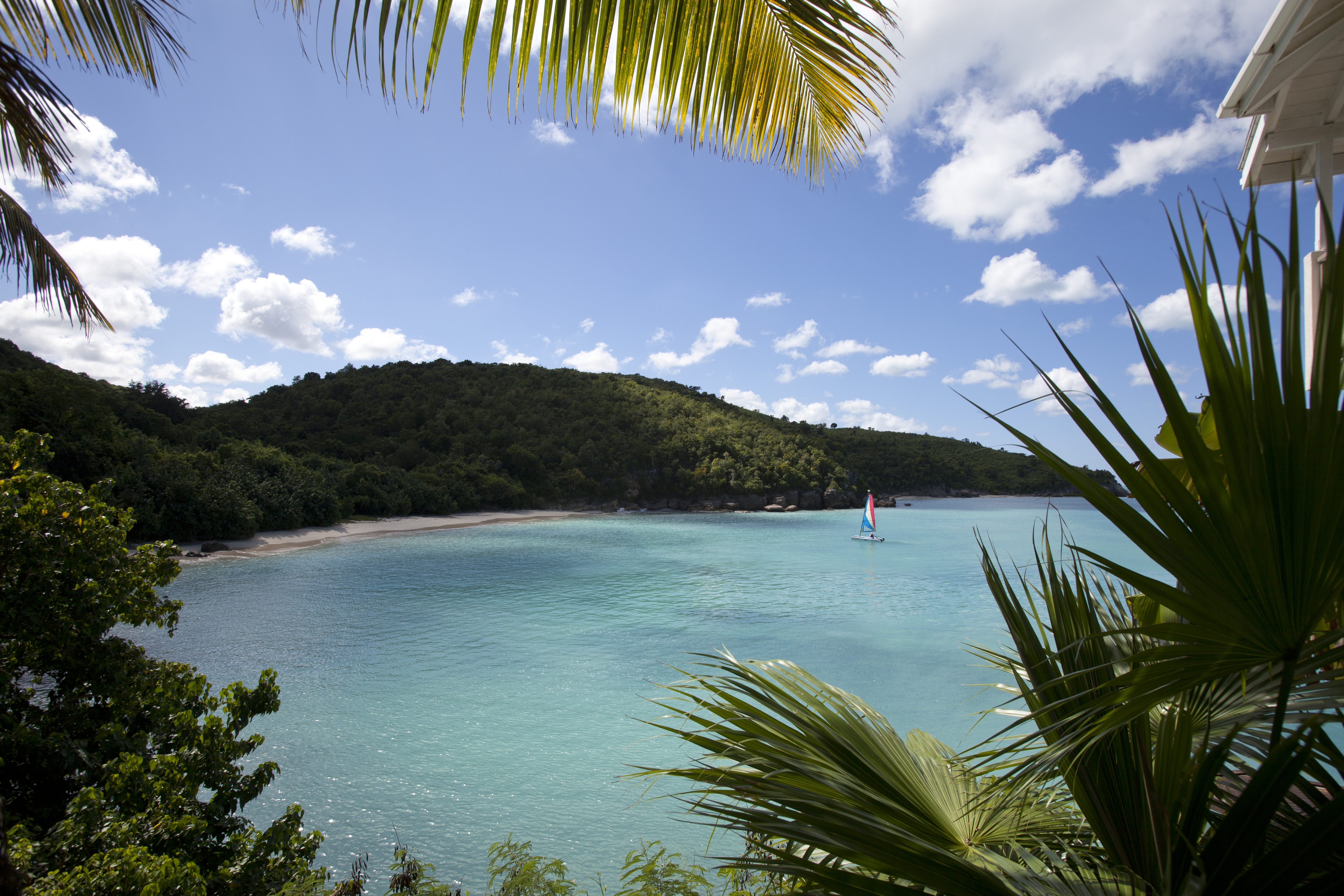 Image shows The View From Rock Cottage to Soldiers Bay.jpg